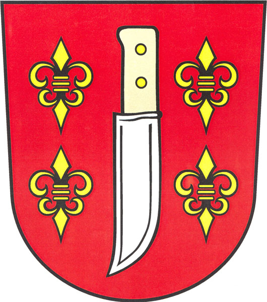 Municipal coat of arms of Milovice village, Břeclav District, Czech Republic.